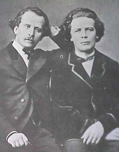 Nikolay and Anton Rubinstein.